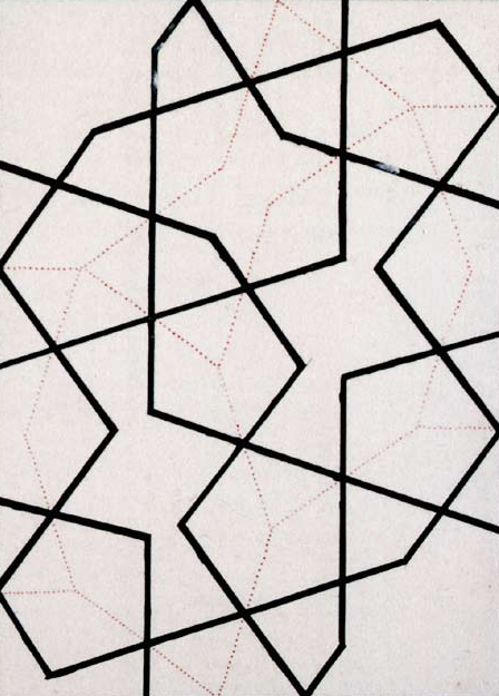 Panel 50 from the Topkapi Scroll. The red lines indicate the outlines of girih tiles used to create the girih pattern in black.